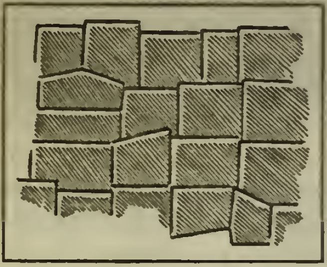 Structure of stone wall of Angkor Wat